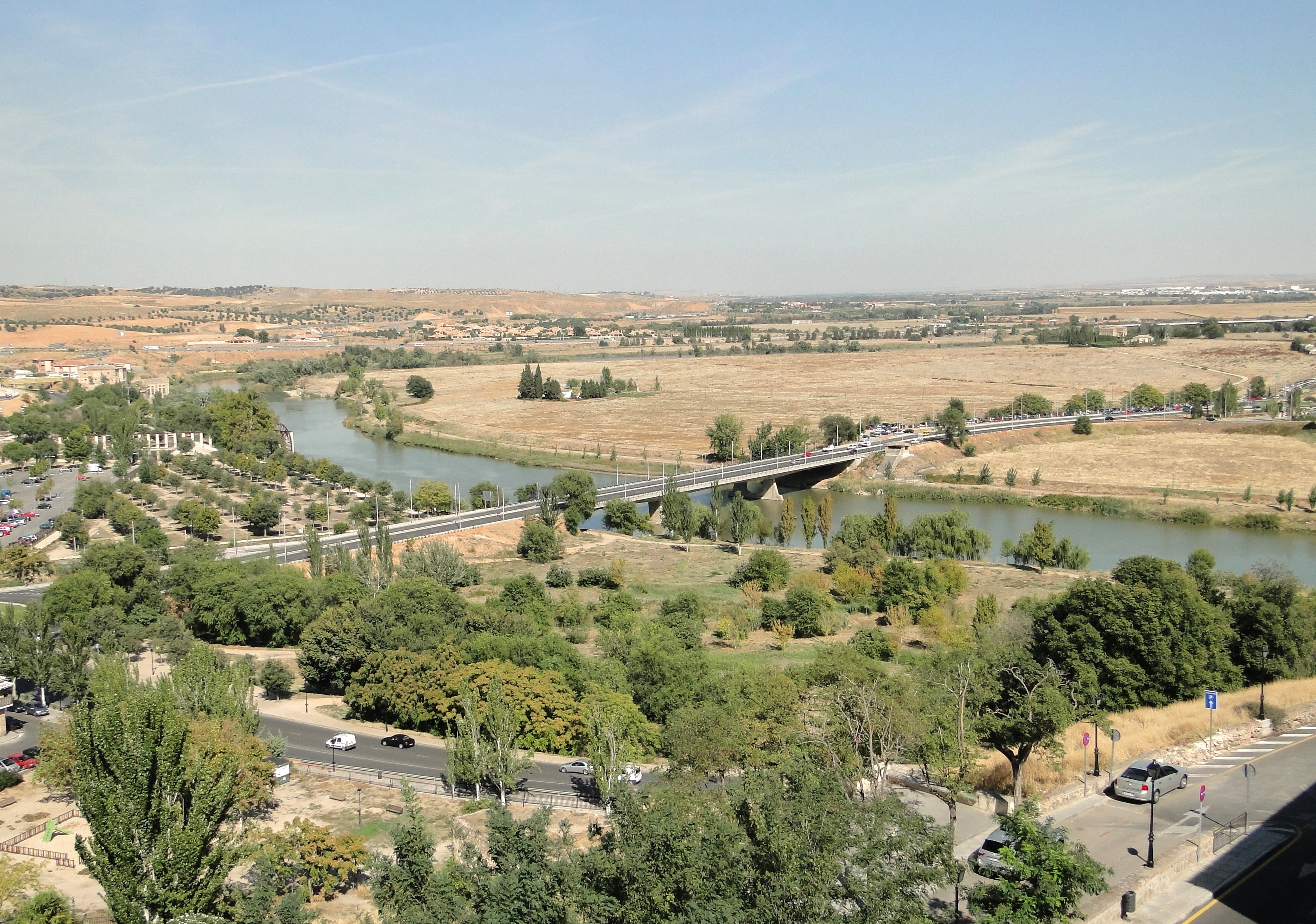 Azarquiel Bridge on Tagus River, Toledo, Spain